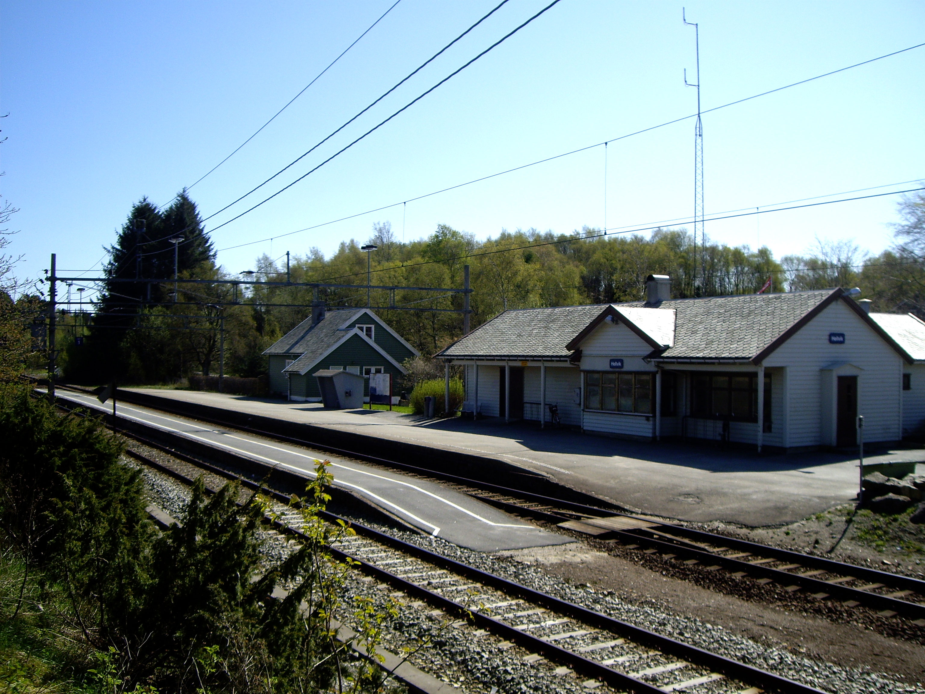 Hellvik station on Jærbanen/Sørlandsbanen